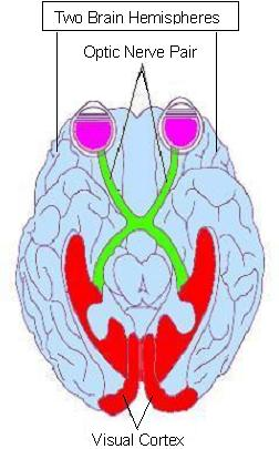 Optic nerve pair & two brain hemispheres